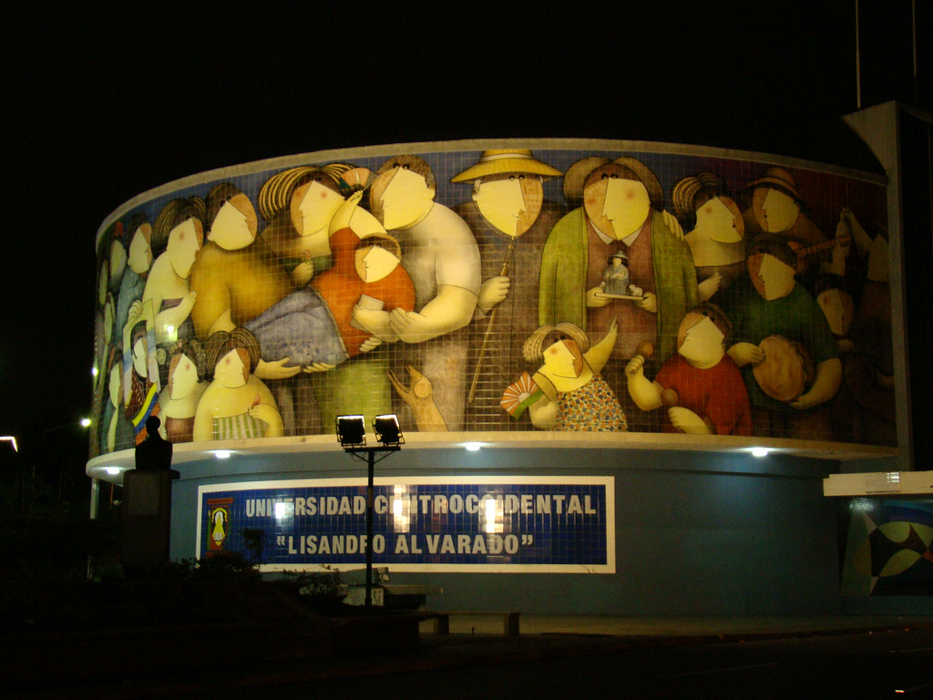 Mosaico Rectorado UCLA